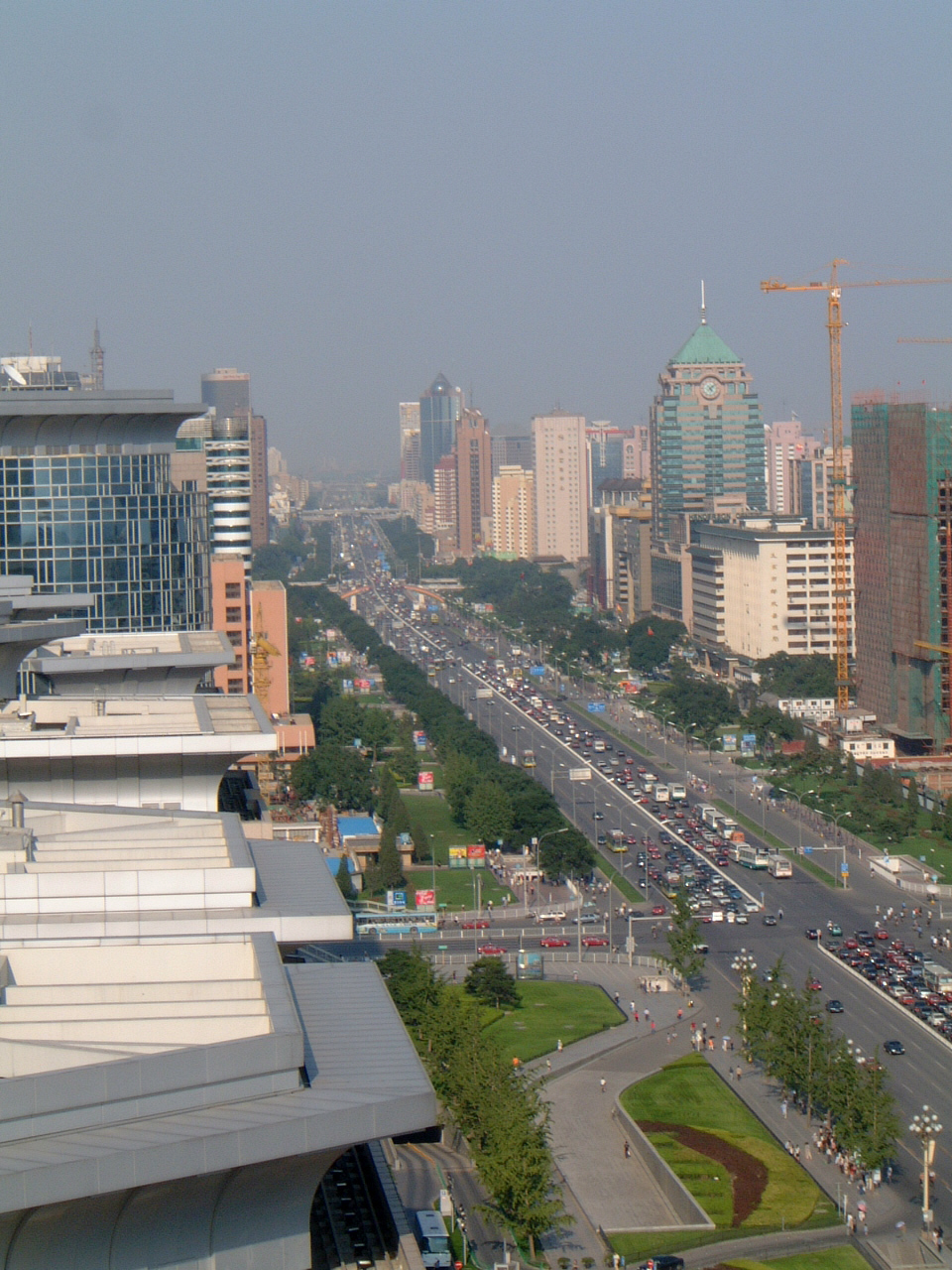 View of the main road to Tiananmen from the Beijing Hotel